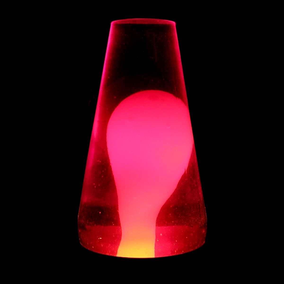 Lava Lamp in the Dark Author: Aaron Kuhn